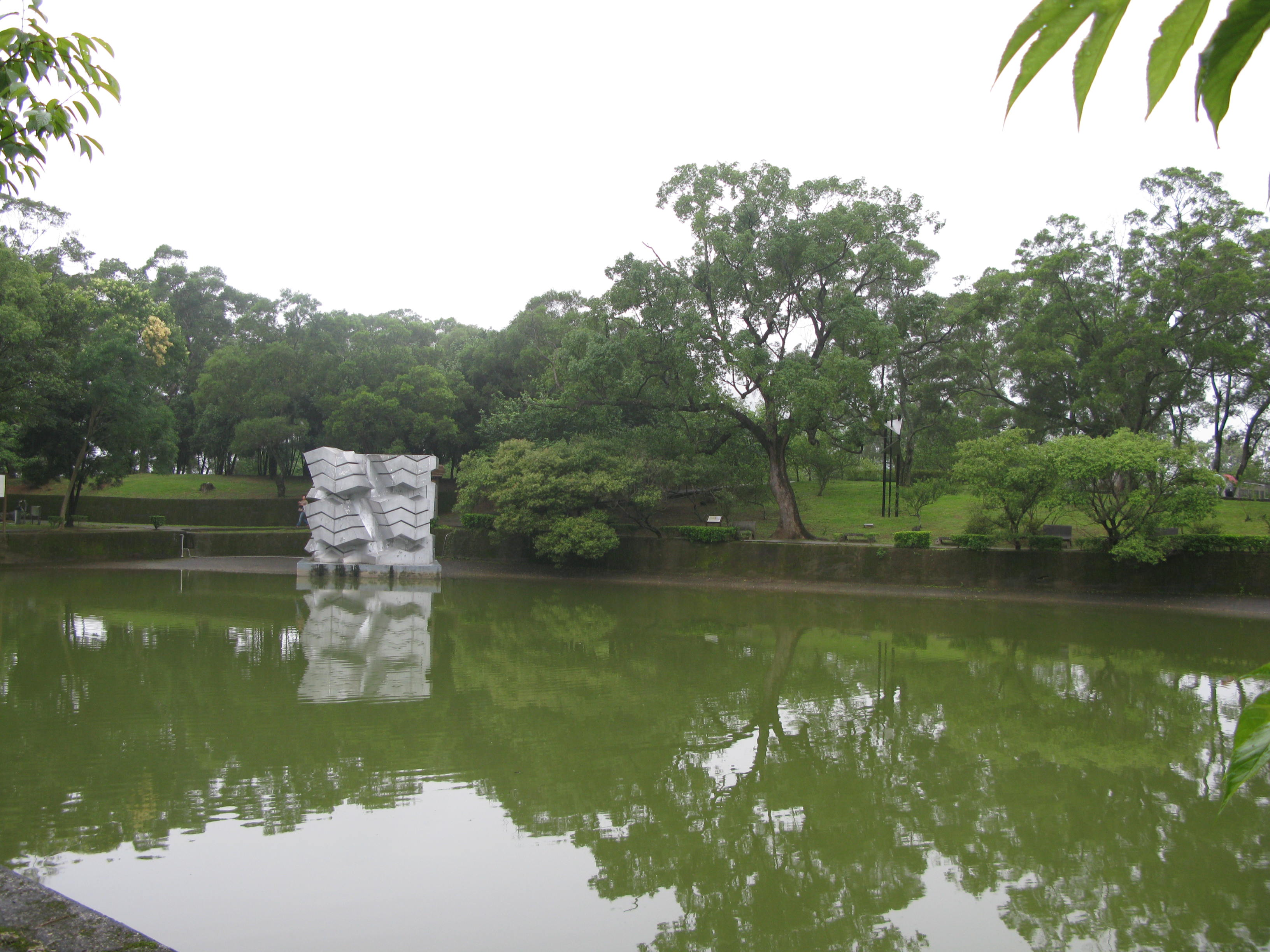 Jiaobanshan resort-3, TAIWAN.